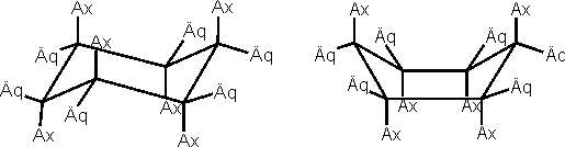 Conformations of Cyclohexan